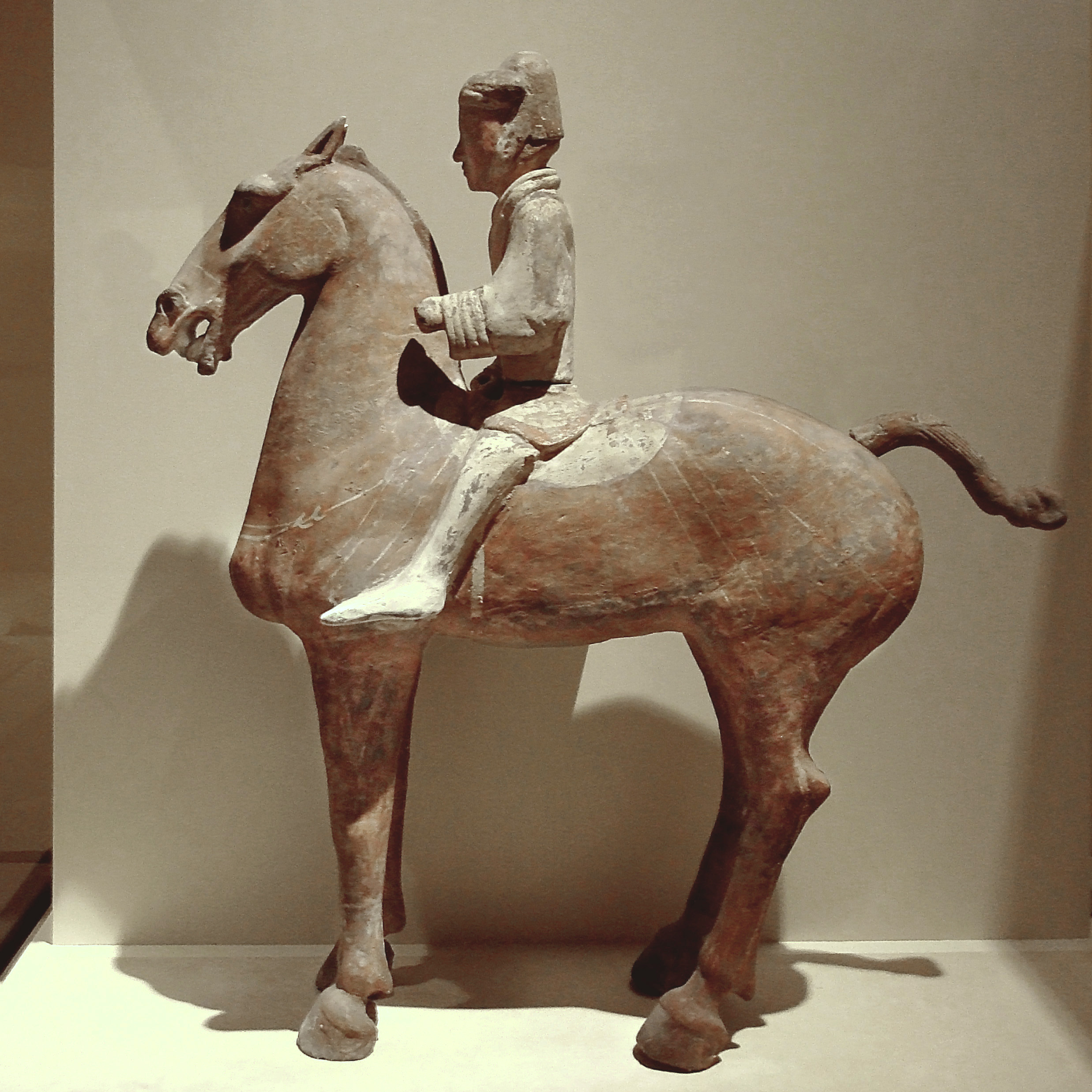 Painted figure of a cavalryman. Western Han Dynasty (206 B.C. - A.D. 8) Excavated at Xianyang, Shaanxi Province, 1965 This painted statue of a cavalryman found in a general's tomb shows a lively horse and rider. The rider is seated on a painted saddle, wearing a short robe and hemp shoes, with his hair bound up in a headdress; the sturdy and stout horse appears to be neighing. =